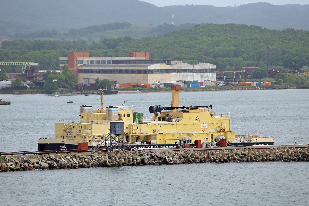 The floating liquid radioactive waste treatment facility Landysh in Bolshoy Kamen on June 27, 2015